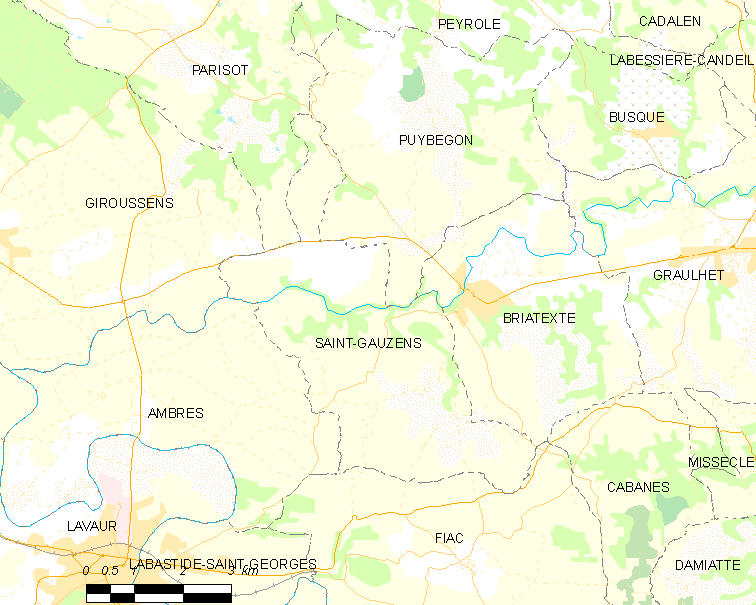 Map of French municipality Saint-Gauzens